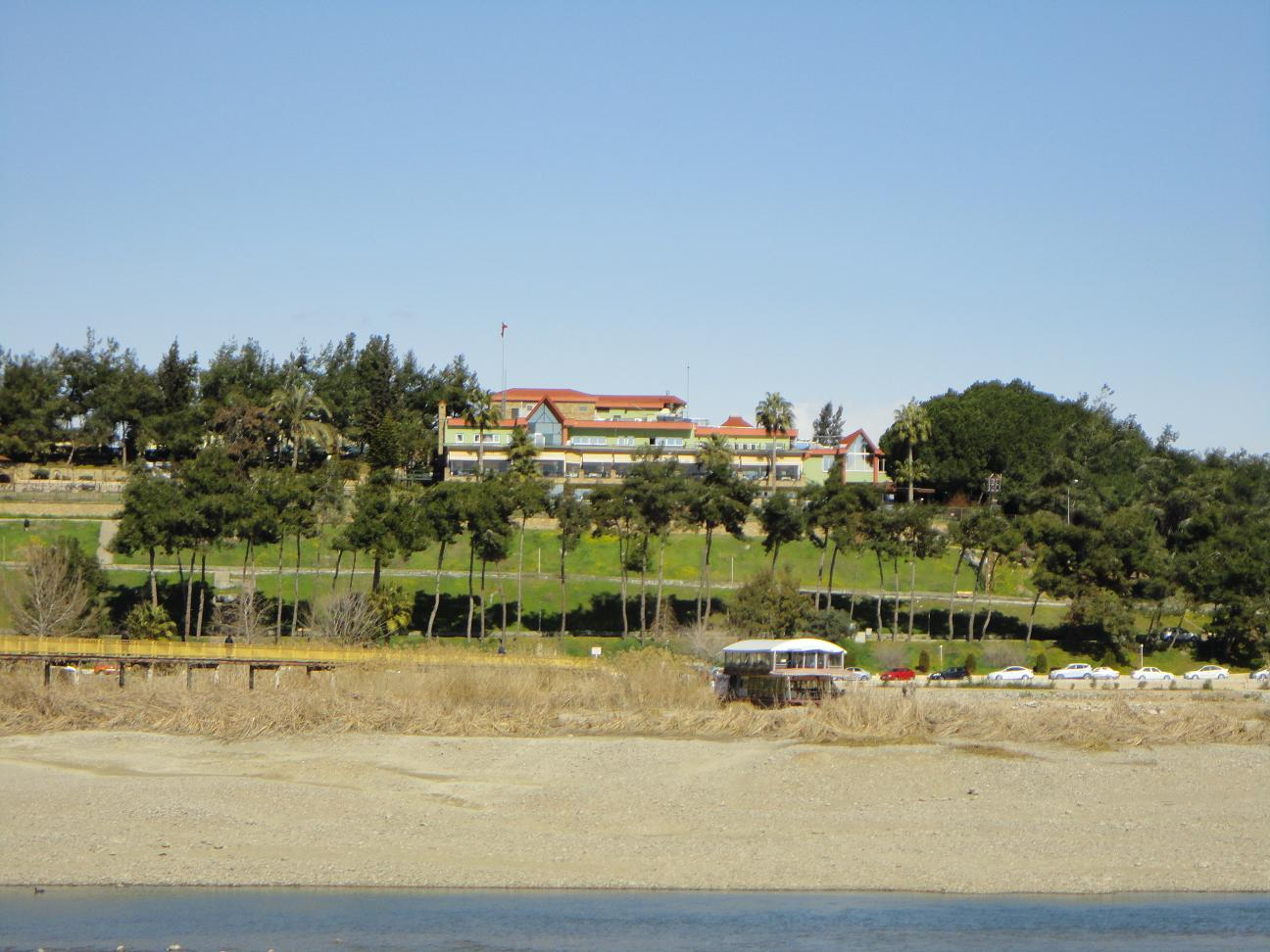 Adana Chamber of Commerce Social House